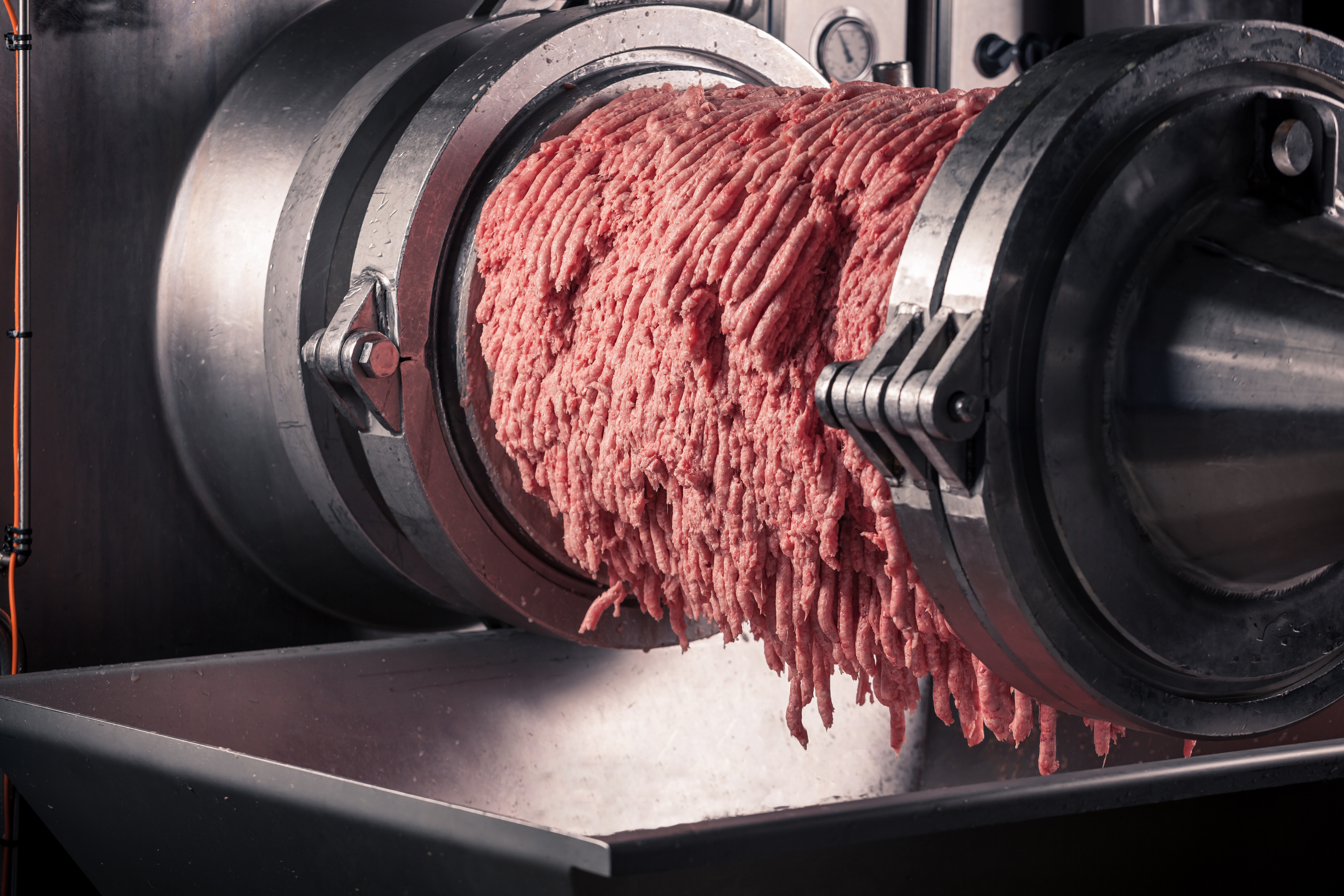 Low pressure meat separator machine